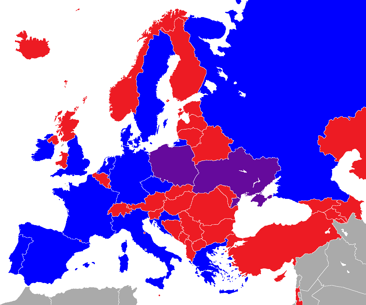 Euro 2012 hosts - Poland & Ukraine The defending champions Qualified Failed to qualify Country is not a UEFA member